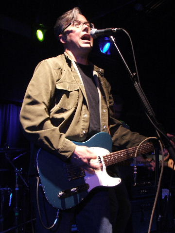 Radney Foster at the South by Southwest Festival 2006.